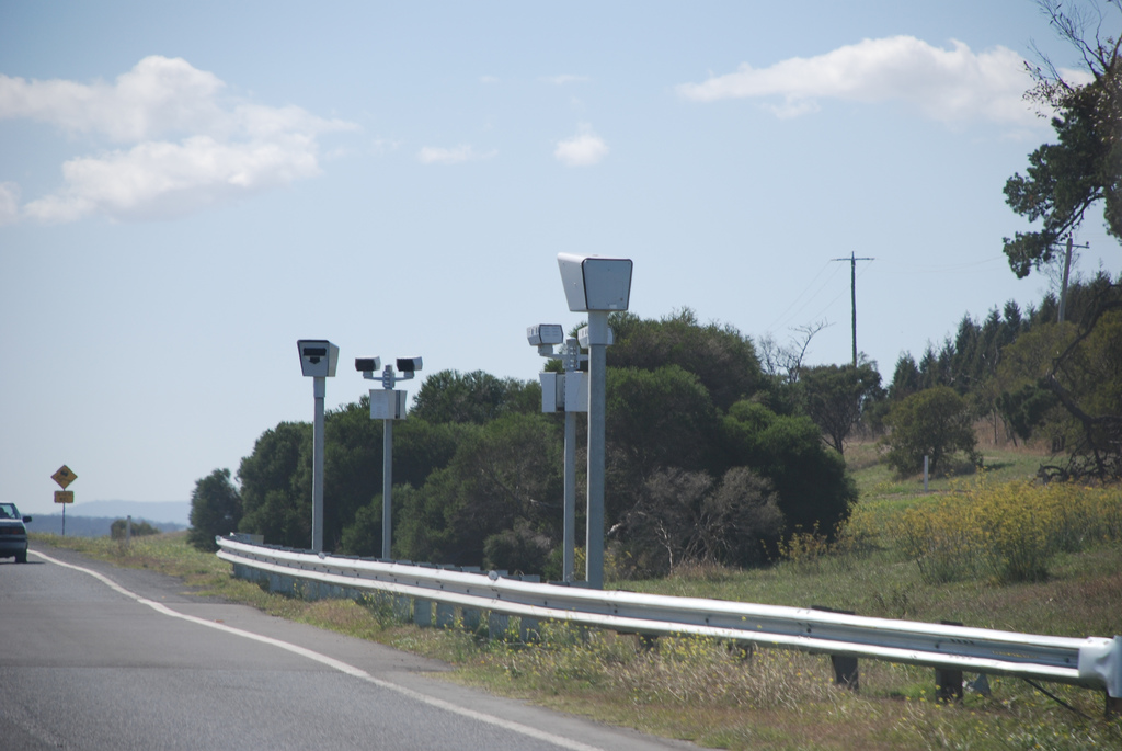 New "Point to Point" speed cameras on the Hume Highway, Victoria, Australia. Point to Point records your average speed over a set distance. That distance can be a few hundred metres to 100 kilometres, with multiple cameras along the way to record the people using on-ramps, etc. Shot was taken while moving, through a dirty windscreen. :(